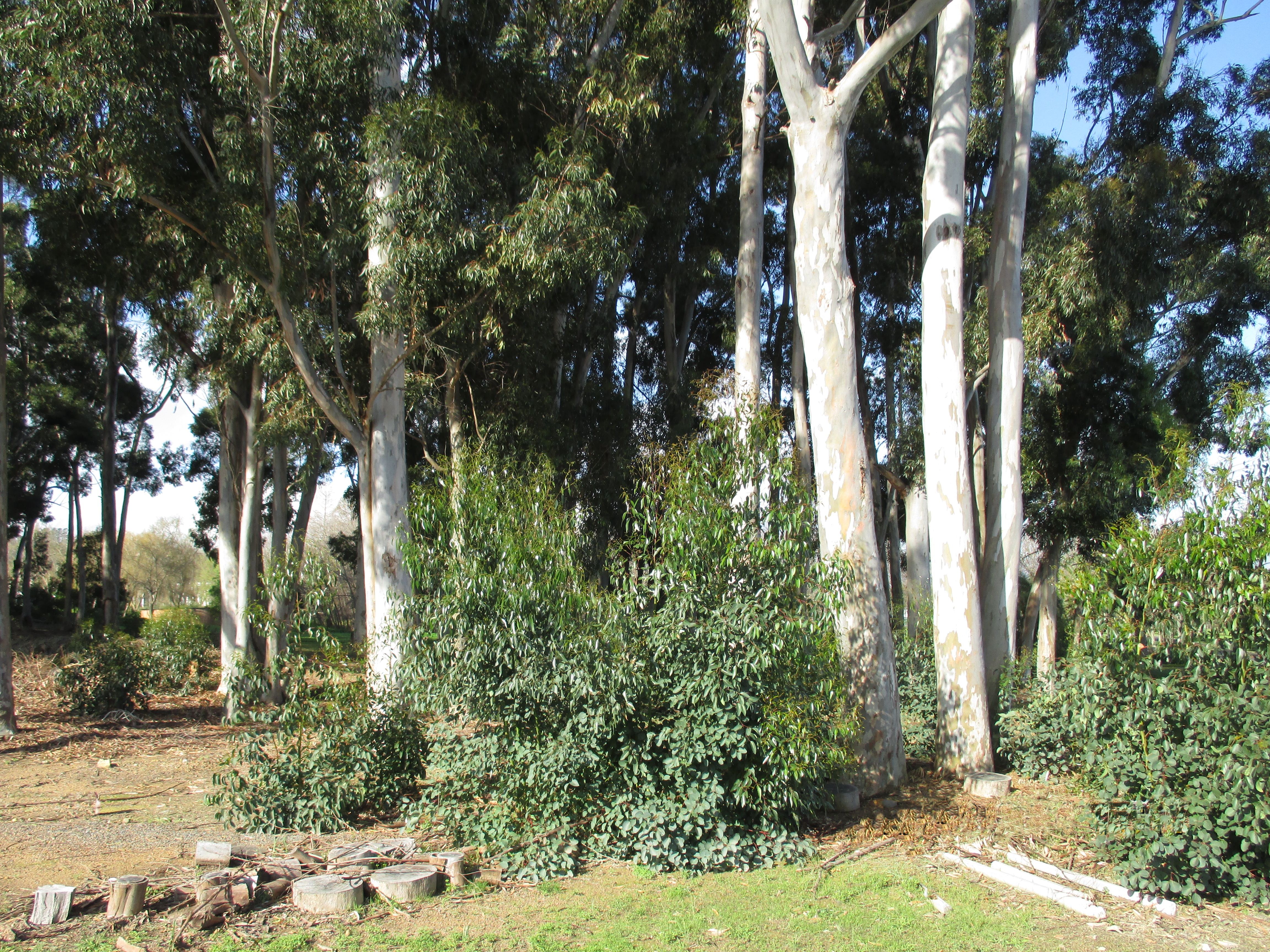 Eucalyptus seedlings generally start with stiff, dorsiventral young foliage. As they grow taller, at least the higher branches grow pendent, wind-resistant, isobilateral leaves. These saplings in transition demonstrate both types as they grow below the parent trees with their purely isobilateral leaves.